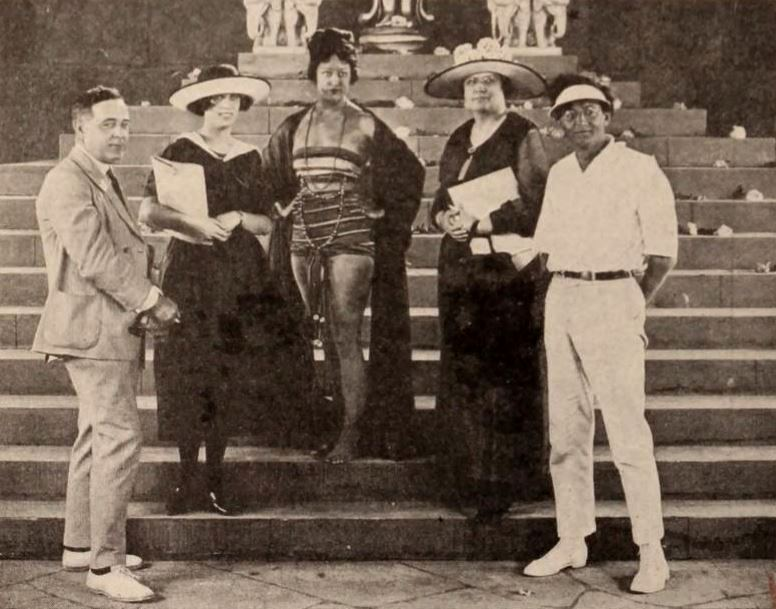 Still from the production of the American film serial The Hope Diamond Mystery (1921) with Kosmik Films treasurer L. C. Wheeler, actresses Grace Gordon and Grace Darmond, Grace Kingsley of the Los Angeles Times, and film director Stuart Paton, on page 62 of the May 29, 1920 Exhibitors Herald.